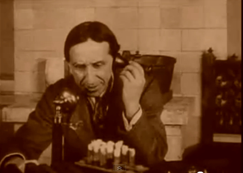 1916 screenshot of actor Frederik Moriss in the Louis Feuillade-directed film series Les Vampires / L'Homme des poisons